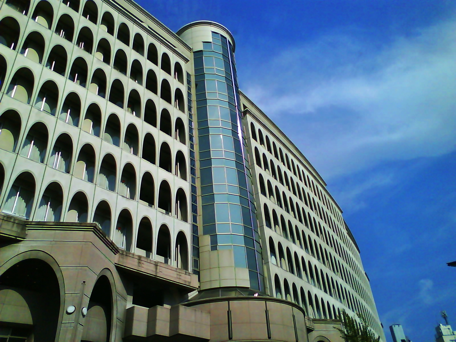 Chukyo University in Yagoto, Nagoya. See where this picture was taken. [?]